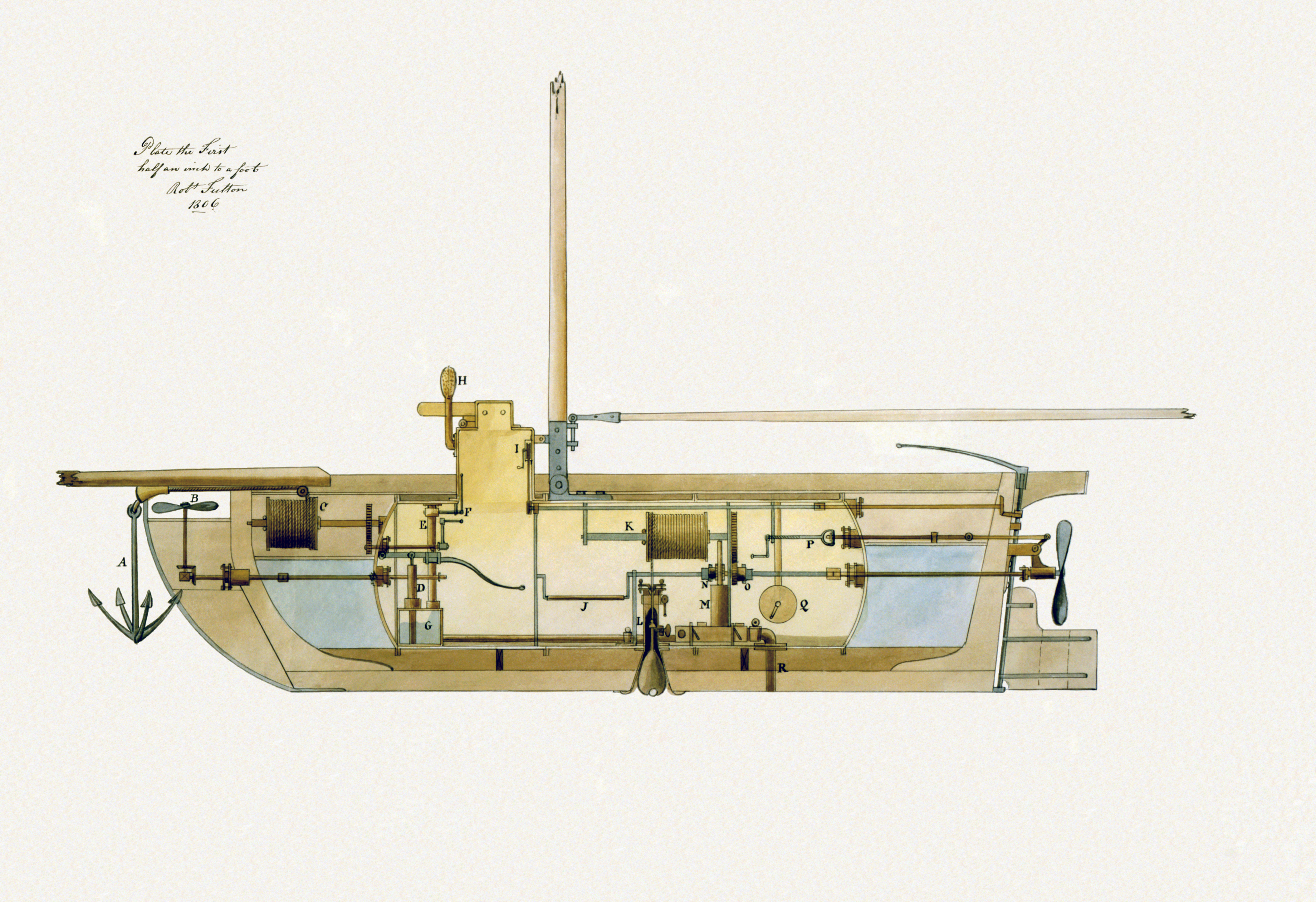 Submarine ("Submarine Vessel, Submarine Bombs and Mode of Attack") for the United States government. Submarine vessel, longitudinal section. Scan from original engineering design in pencil, ink, and watercolor. 1806.